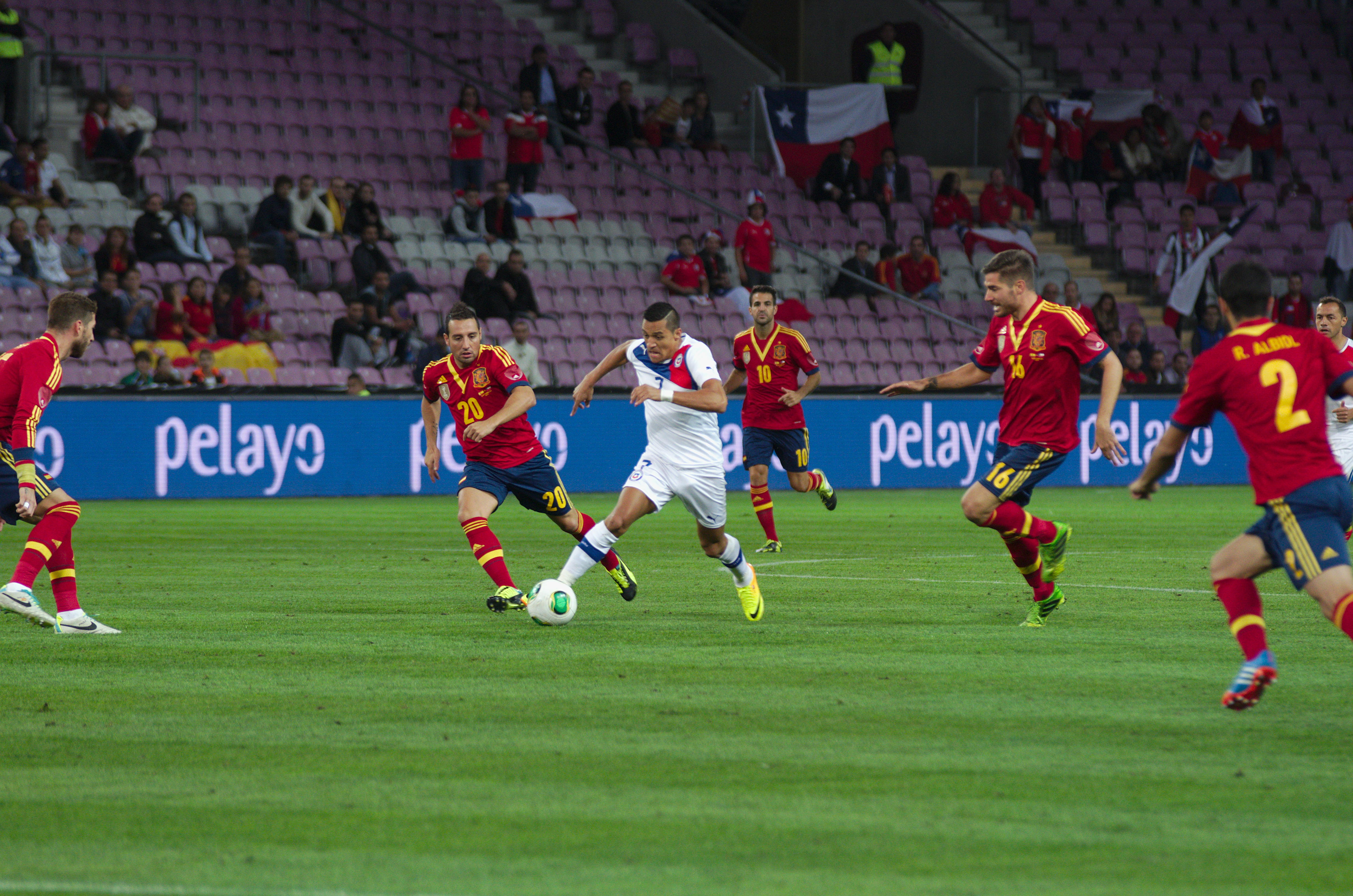 Spain - Chile - 10-09-2013 - Geneva - Spain - Chile - 10-09-2013 - Geneva - Santiago Cazoria, Alexis Sanchez and Javi Garcia